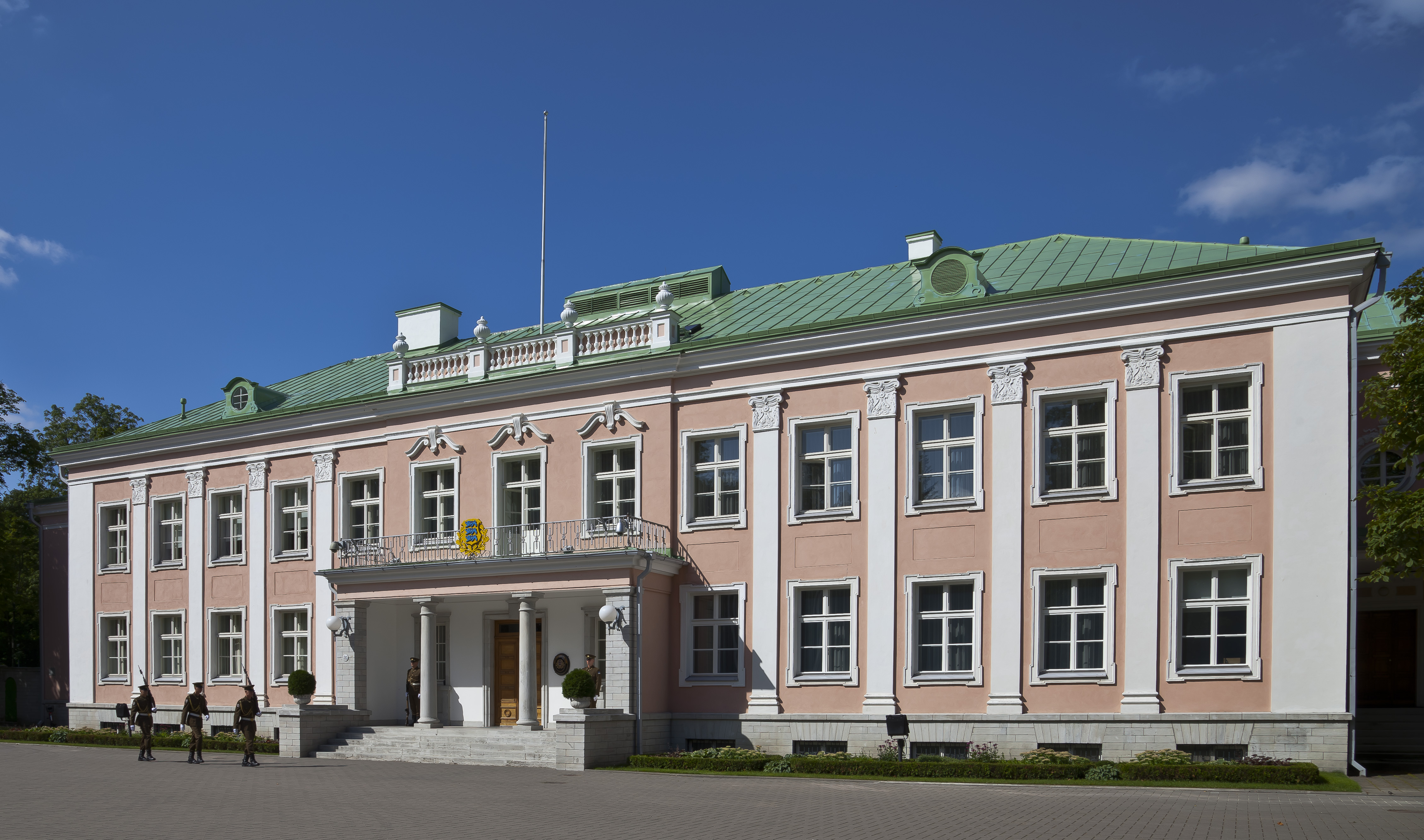 Presidential palace, Tallinn, Estonia